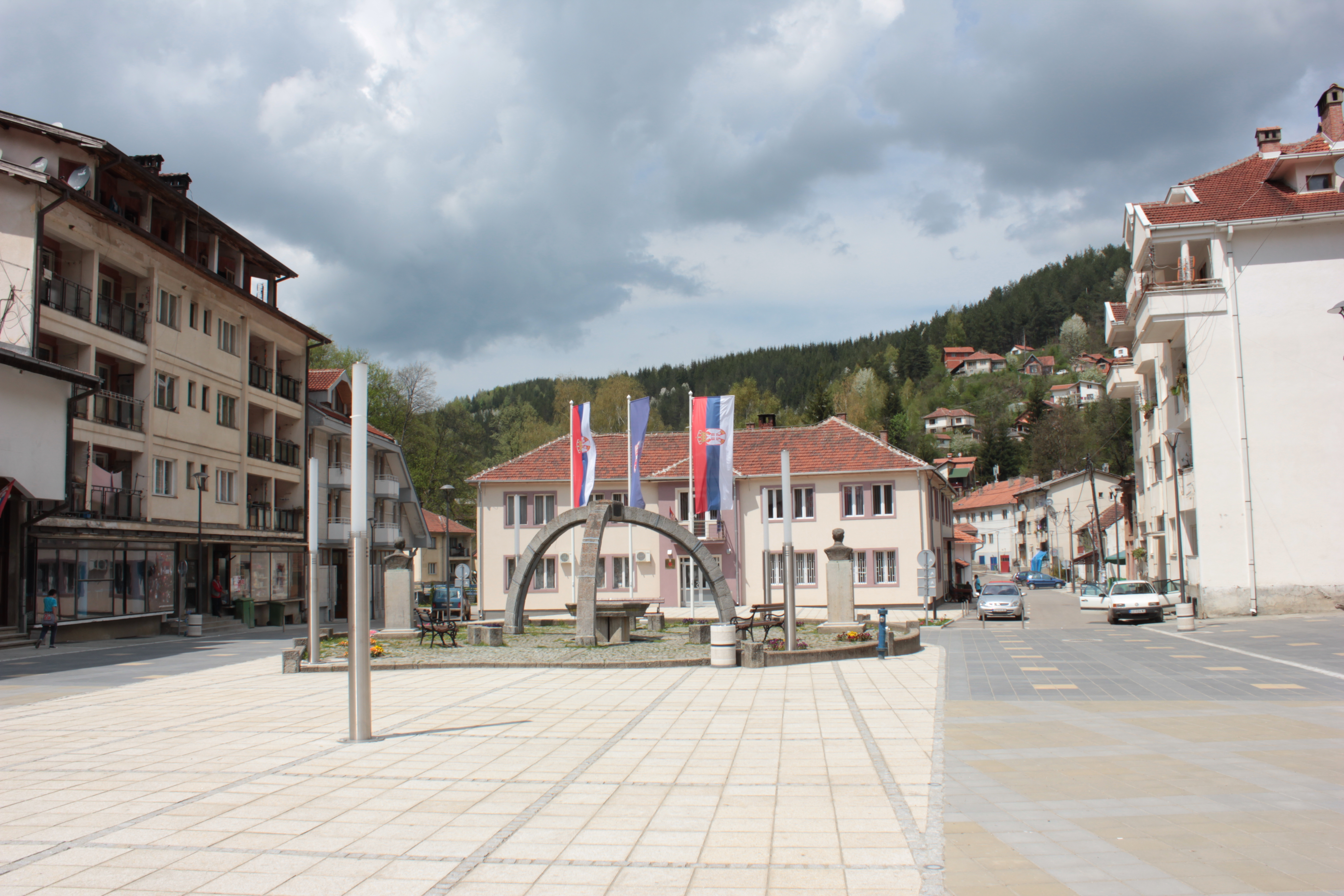 Opshtina Crna Trava central square and village hall